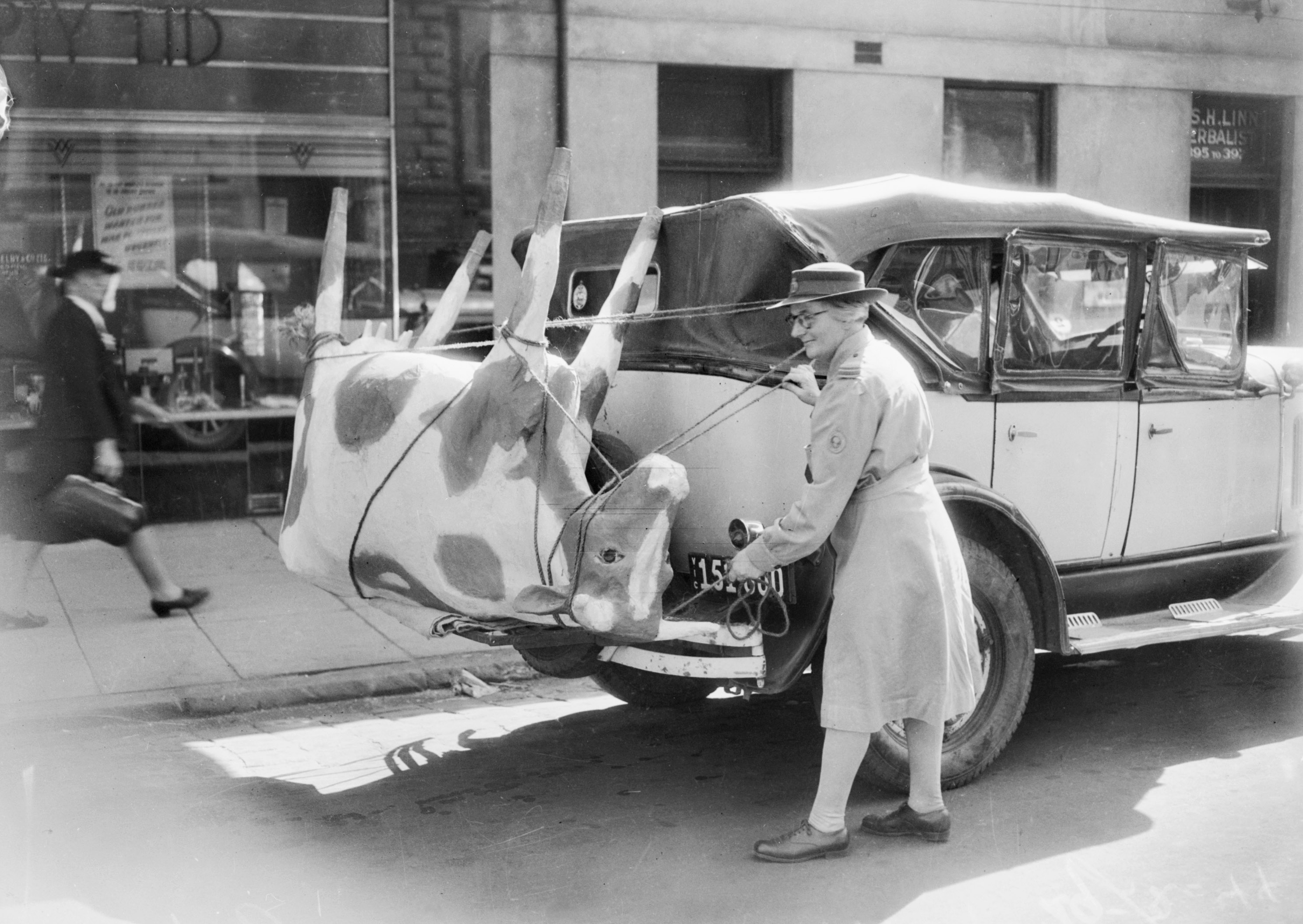 A papier-mache cow on Mrs Mellor’s car, 1944 ID Number: 140486 Maker: Herald Newspaper Melbourne, Victoria. 1944-02-29. A papier-mache cow, used for milking demonstrations at the Werribee experimental farm, being tied on to the luggage carrier of Mrs Mellor's car for transport to the farm. Mrs Mellor is Field Officer in charge of the Women's Land Army Mont Park training depot. Rights Info: No known copyright restrictions. This photograph is from the Australian War Memorial's collection Persistent URL